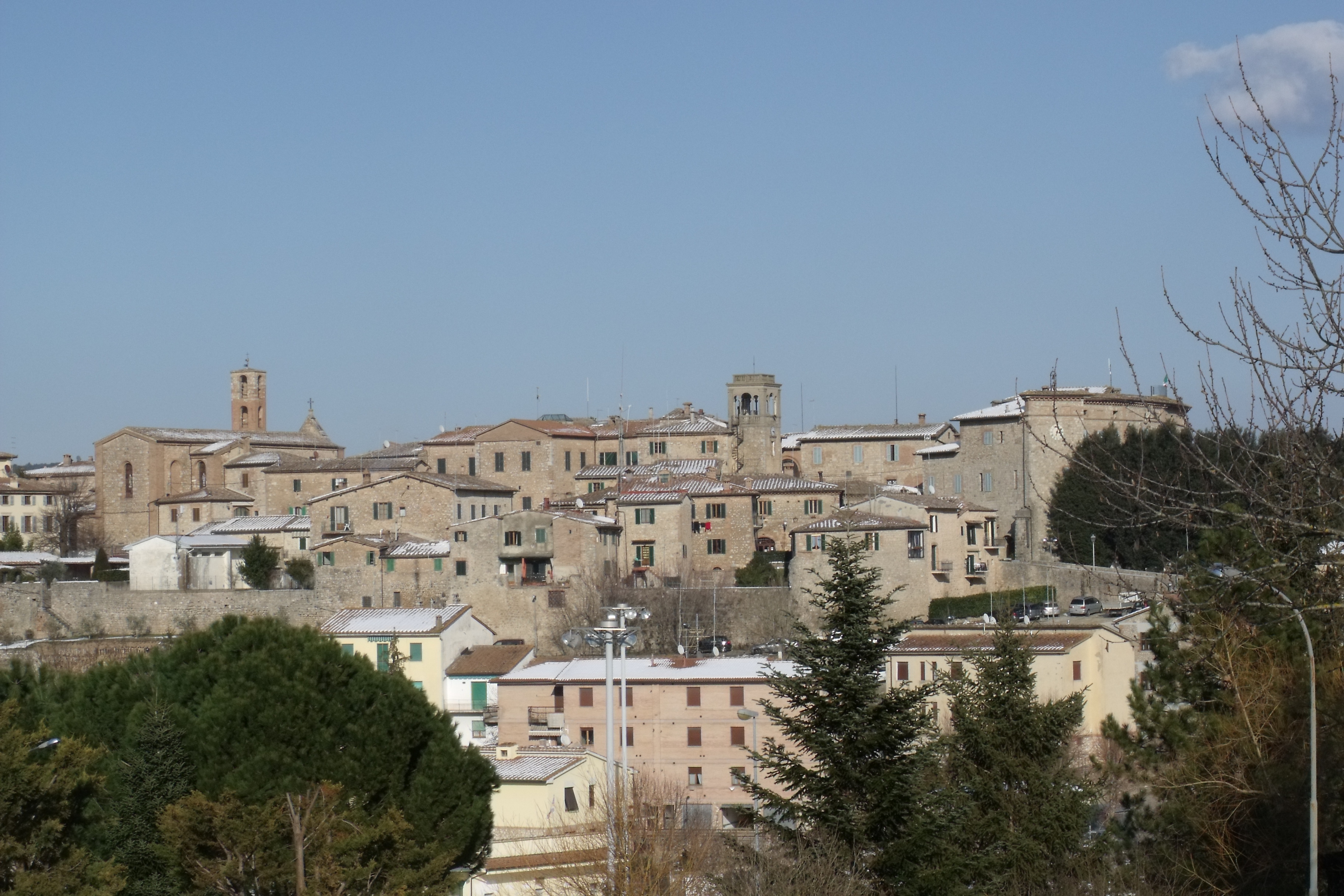 Panorama of Sovicille, Province of Siena, Tuscany, Italy